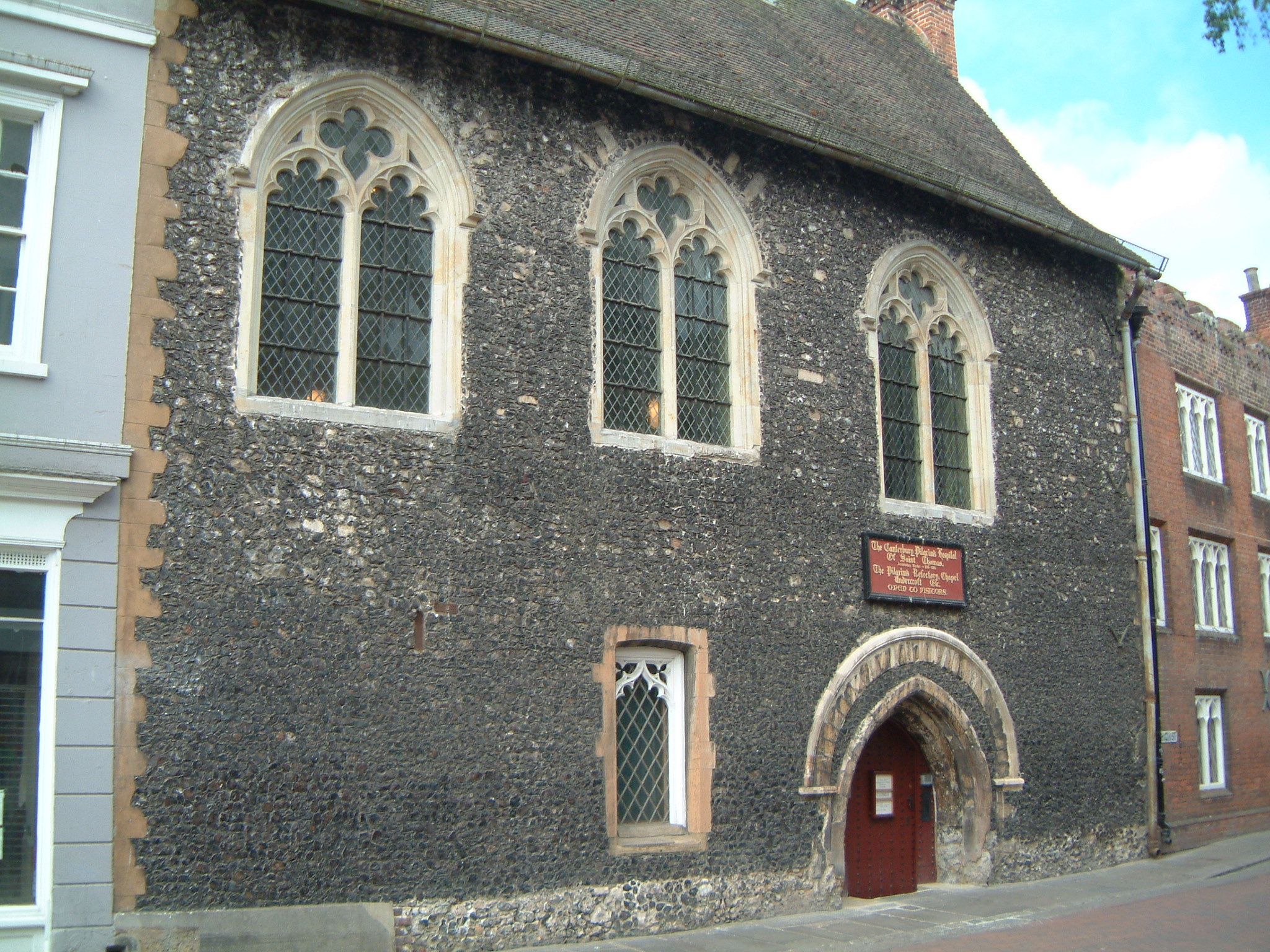 Canterbury - Eastbridge Hospital of Saint Thomas the Martyr (1176)